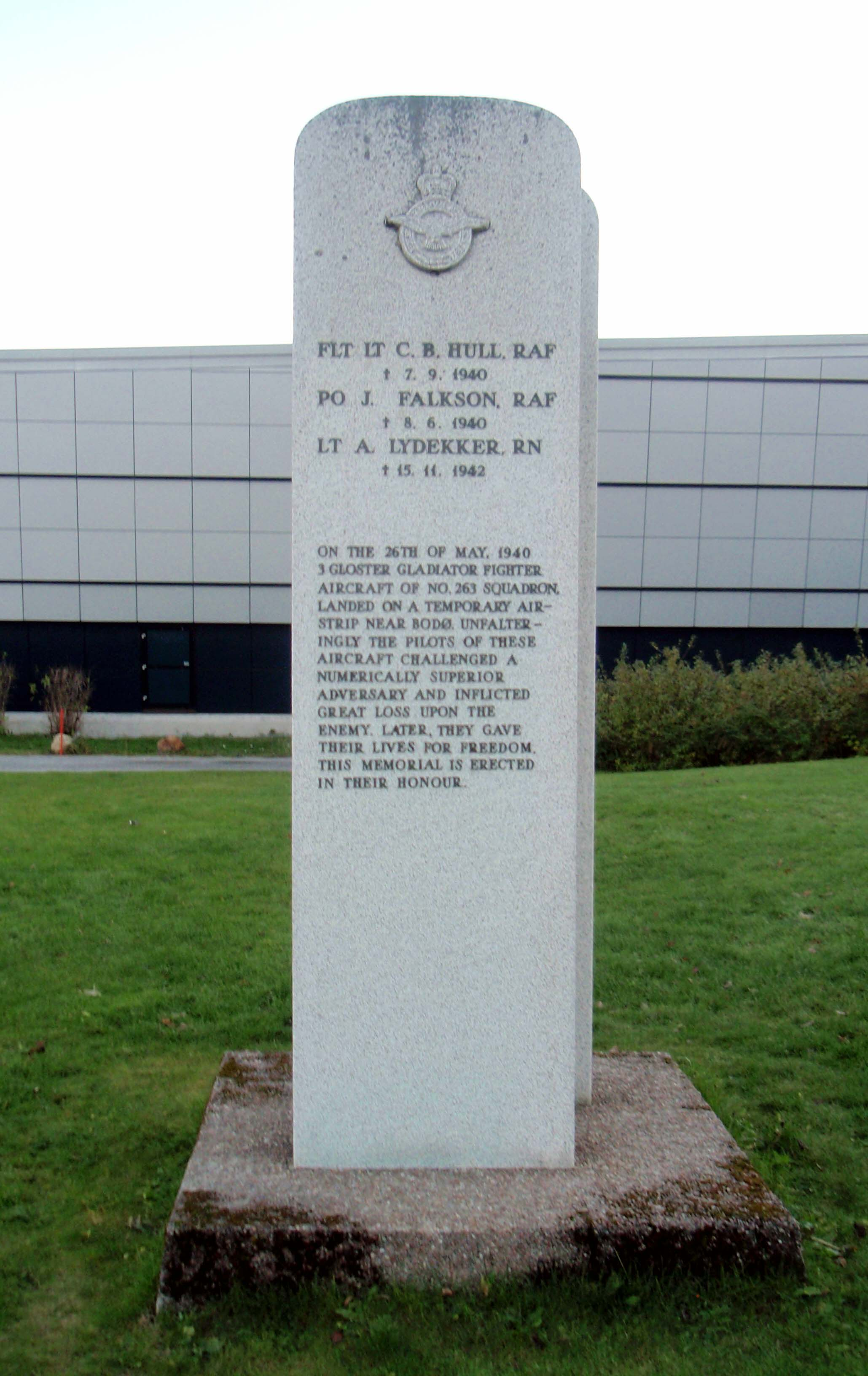 Memorial stone commemorating the three Gloster Gladiator fighter pilots who fought in the Bodø area in late May 1940—RAF pilots Flt Lt (later Sqn Ldr) Caesar Hull (Rhodesian) and Plt Off Jack Falkson (South African), and Royal Navy pilot Lt Tony Lydekker. All three pilots later perished during the Second World War. The memorial stone is located next to the Norwegian Aviation Museum.